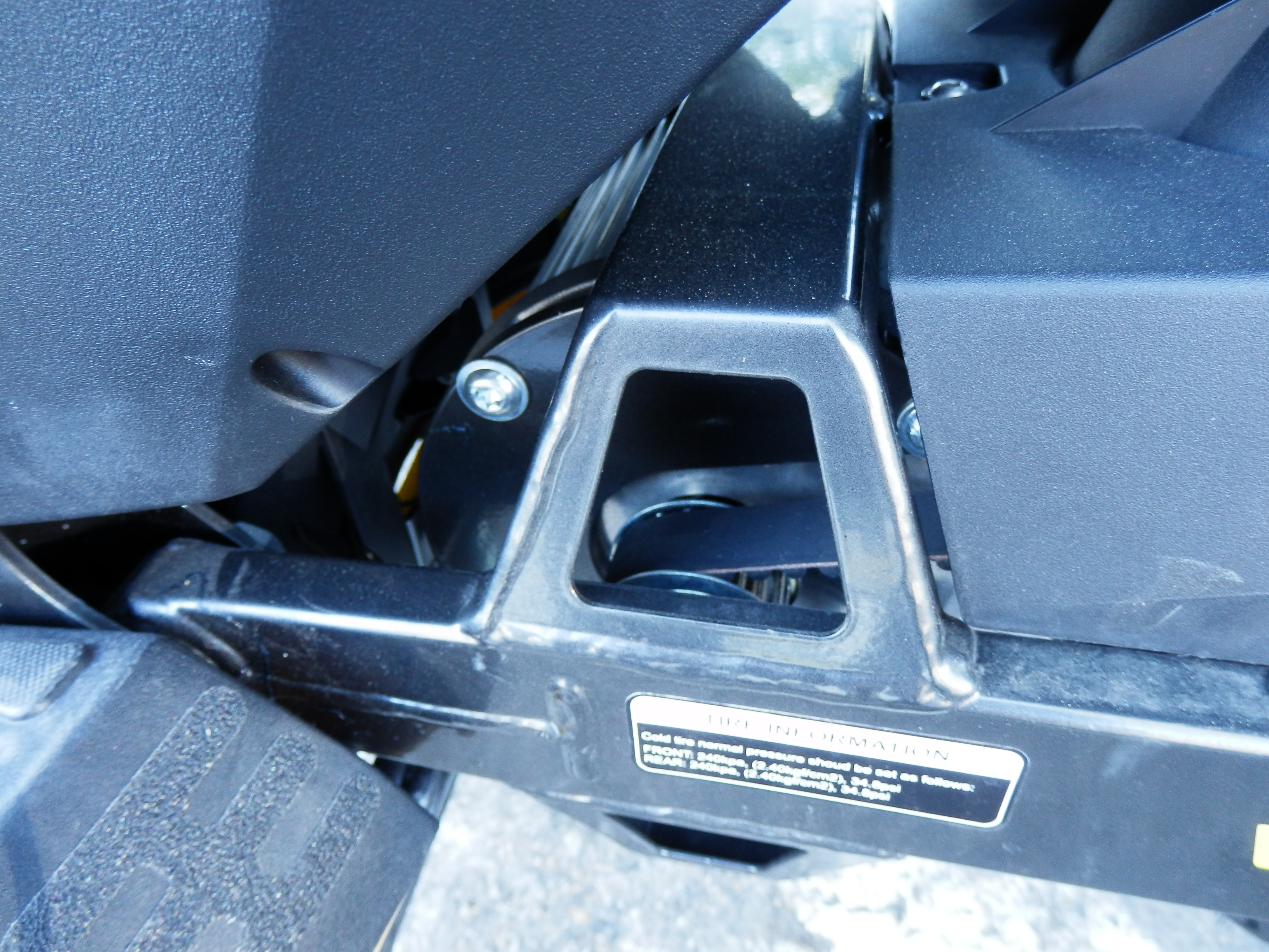 Torrot Muvi electric bike.